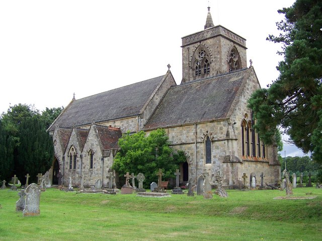 St John's Church, Bemerton St. John's a large Victorian (1860) church was built at a time of village expansion.